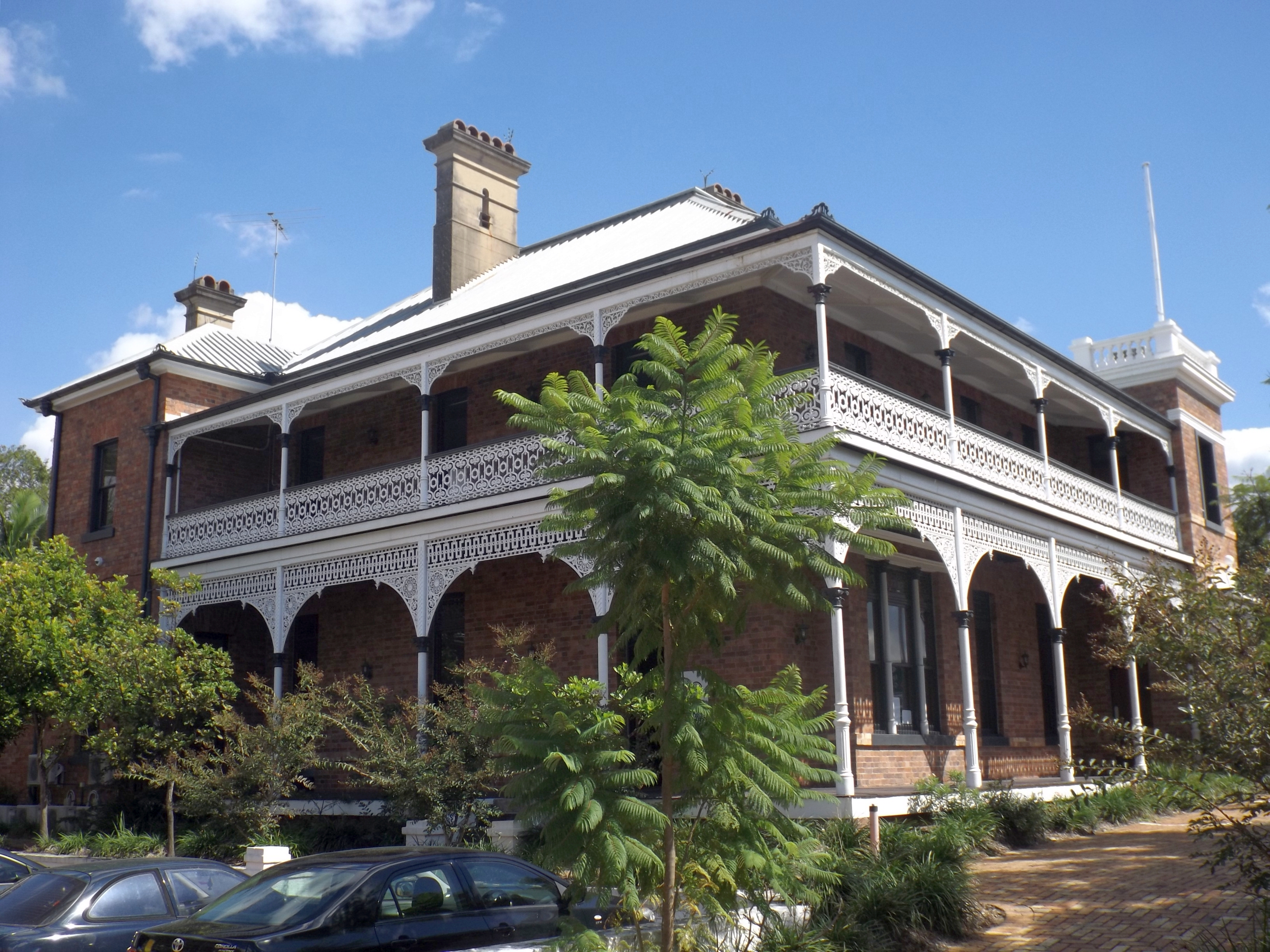 Photo of Leckhampton at Kangaroo Point, Brisbane, Queensland, Australia.